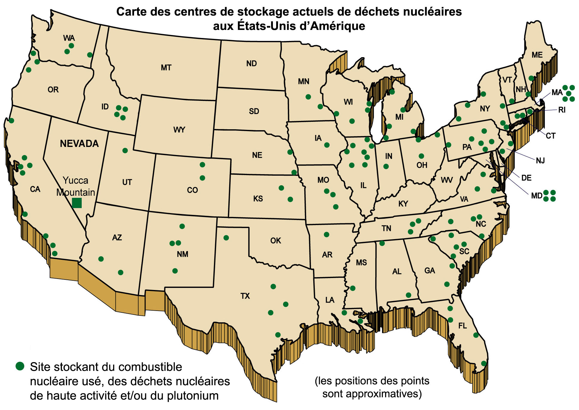 Map in French of the U.S. current nuclear waste locations